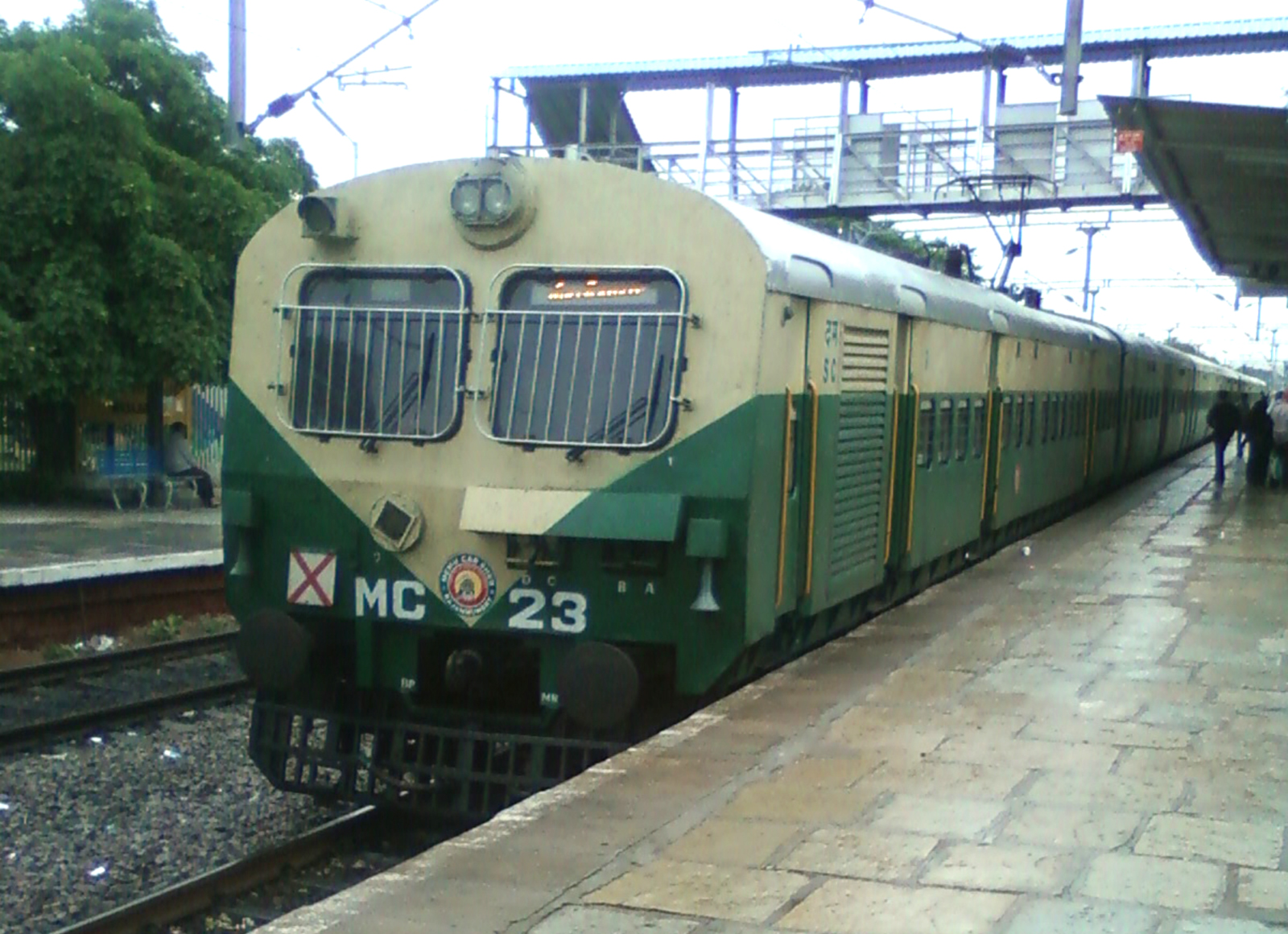 Bhongir-Falaknuma MEMU at Malkajgiri station, Secunderabad